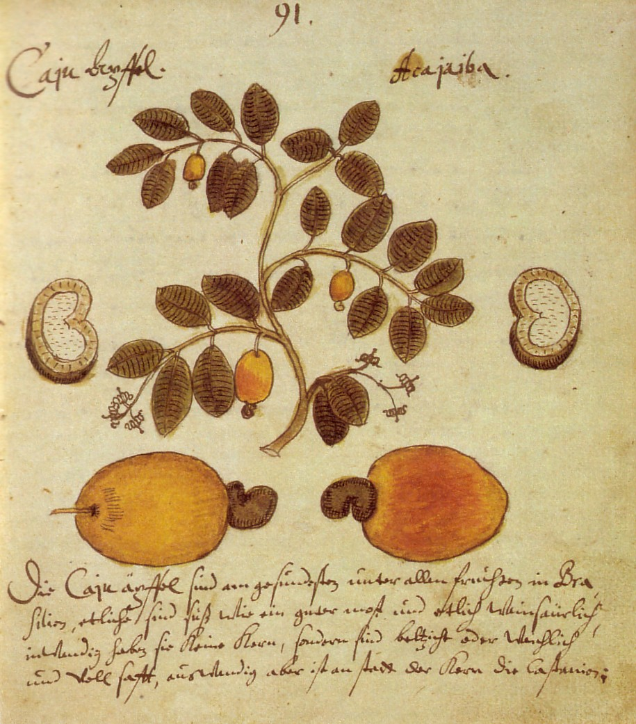 colored drawing by Caspar Schmalkalden (c.1618-c.1668)